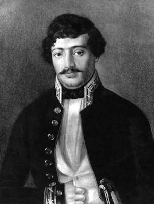 Portrait of N. Chichinadze. Museum of Fine Arts, Tbilisi